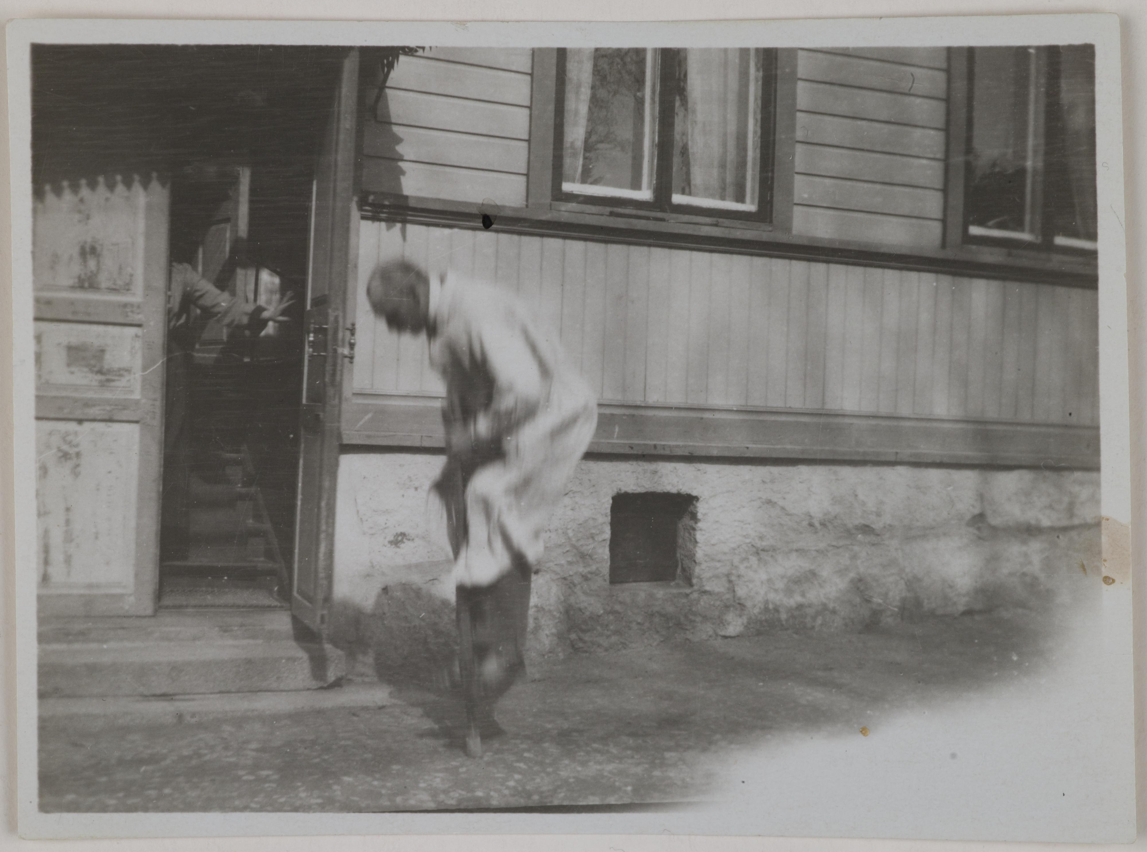 Akseli Gallen-Kallela hyppii hyppykepillä perheen uuden Porvoon kodin edustalla Lundinkadulla 1923. kuvauspaikka: Porvoo, Lundinkatu ajoitus: 1923 kuvaaja: Kirsti Gallen-Kallela kuva-alan mitat: 57x78mm tekniikka: merkintöjä: "Lundagatan Isä hoppaa [epäselvä] i Borgå nya hemmet 1923" inventointinumero: Kot. 1 a/111 kokoelma: Akseli Gallen-Kallelan valokuvakokoelma tutki lisää / explore further: Tiedätkö lisää tästä kuvasta? Kerro meille! Do you have information on this photo? Let us know!